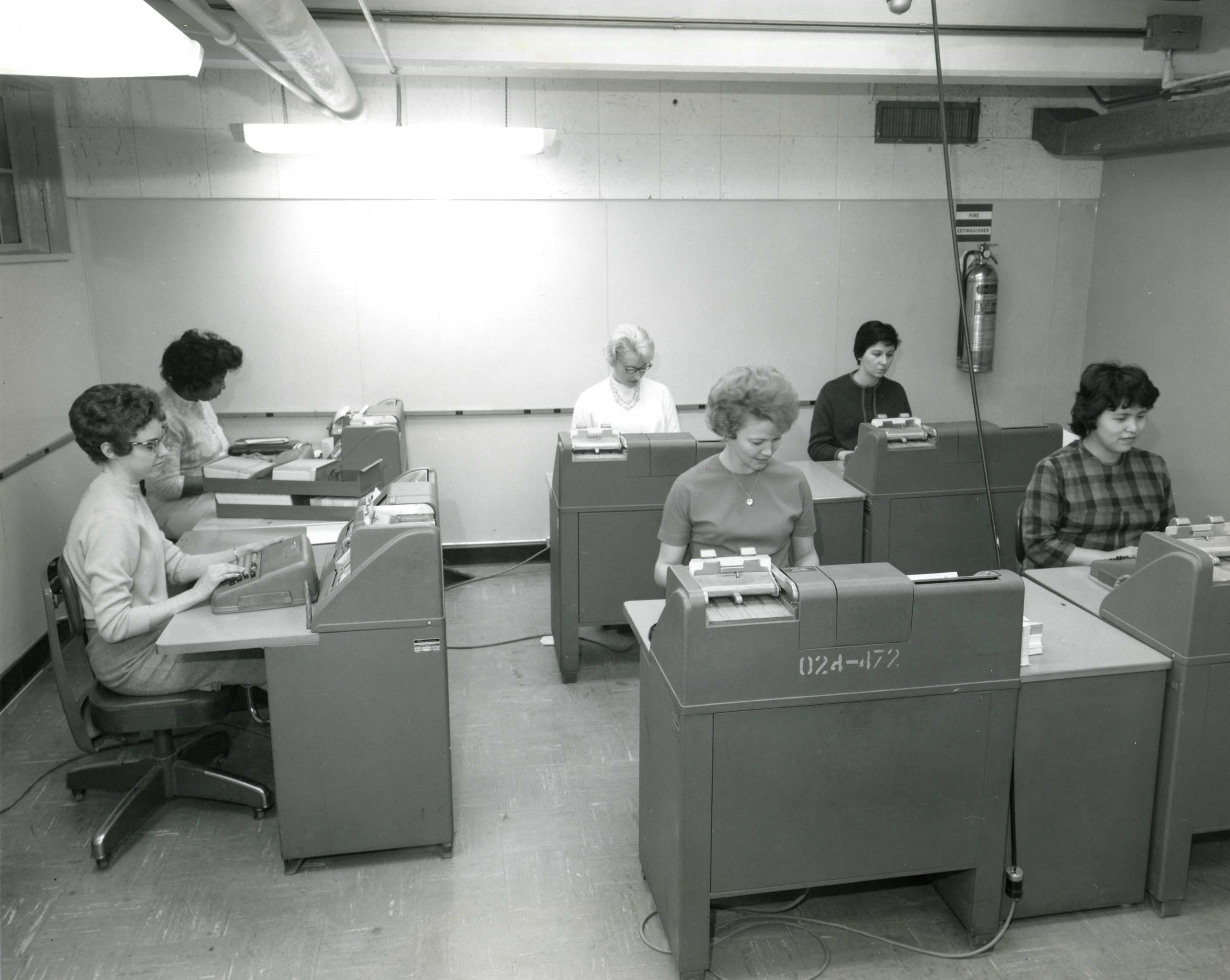 Six women operating IBM 026 keypunch machines